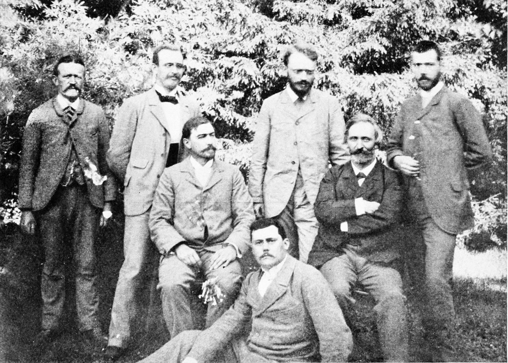 Hermann Vöchting in front of botanical garden workers